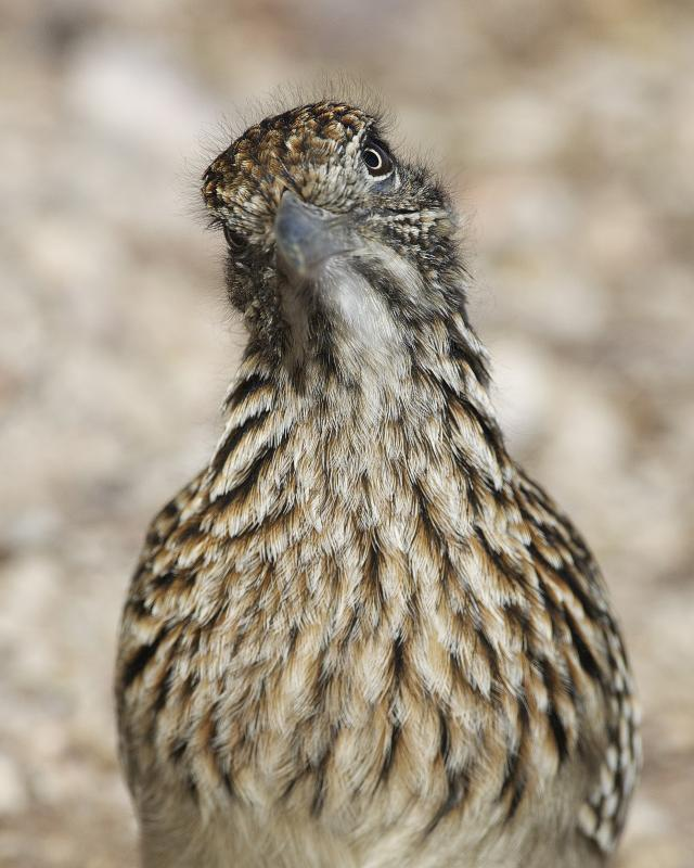 Had tables turned by an inquisitive Greater Roadrunner in Henderson Bird Viewing Preserve (BVP), Nevada Other titles suggested: Birdwatching with a slant Who's looking at who 690V5534